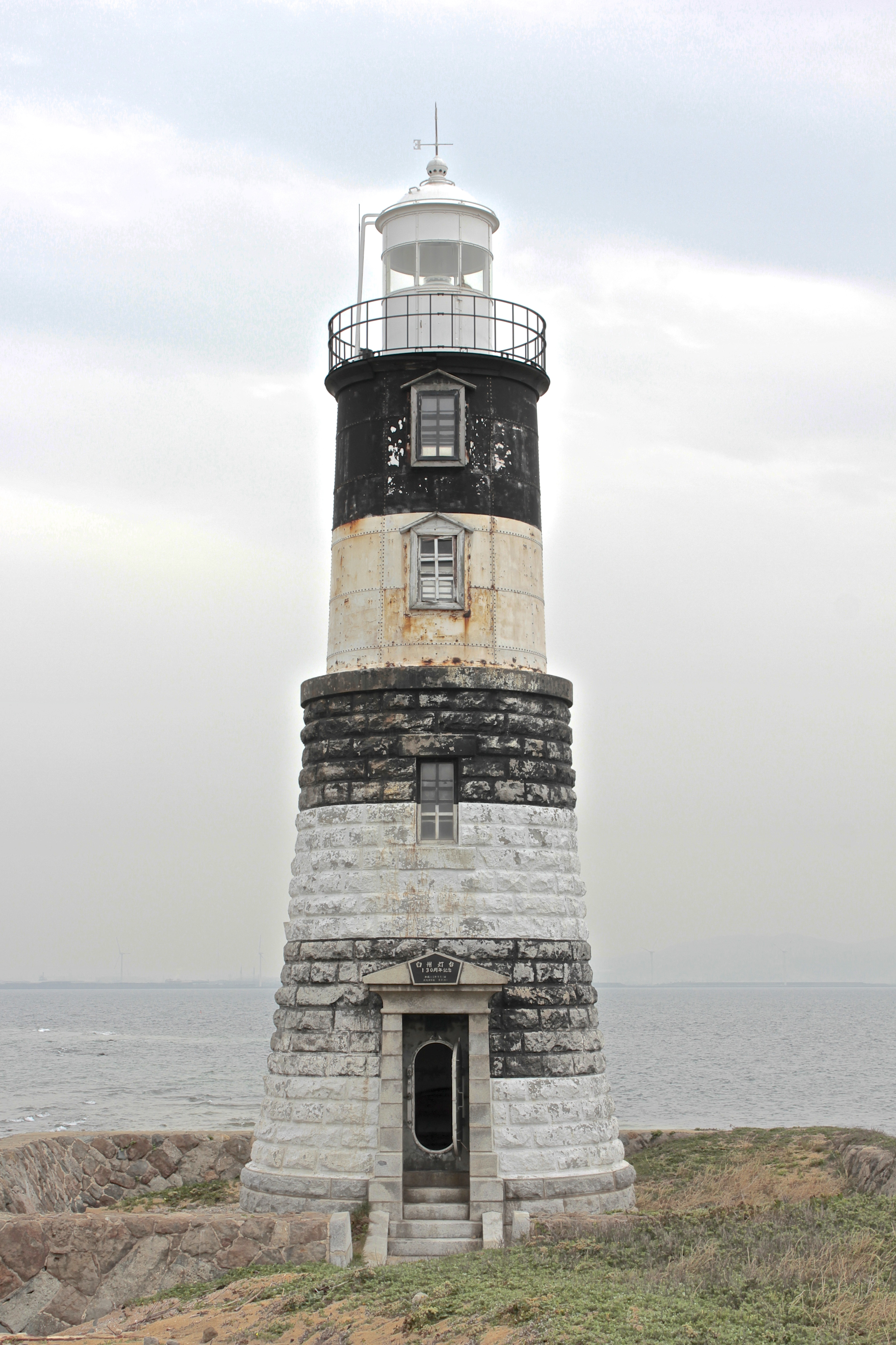 shirasu_toudai